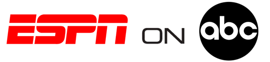 Logo of ESPN on ABC (used in sports programming of US network ABC).